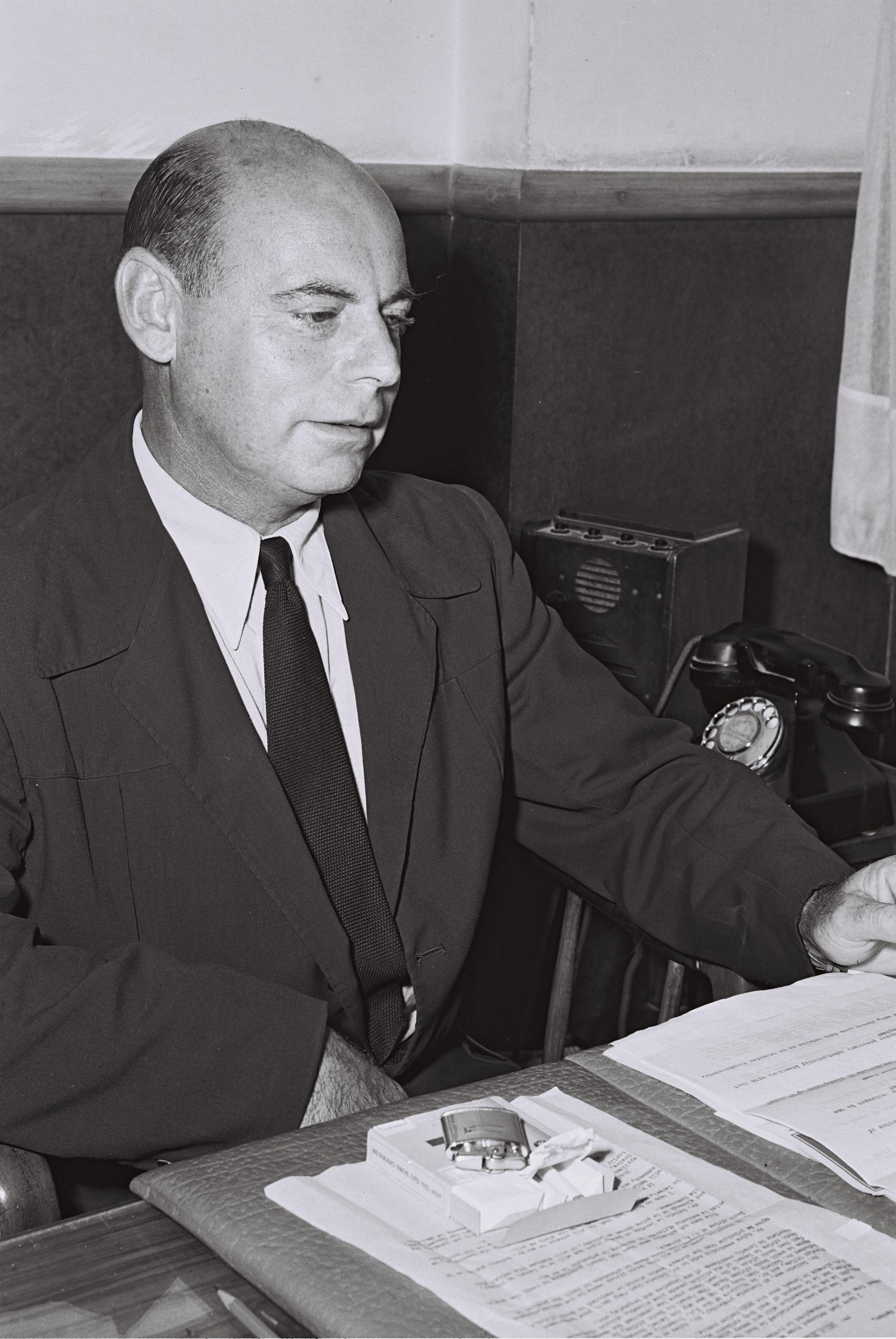 Yaacov Meyer Geri, minister of trade and industry.